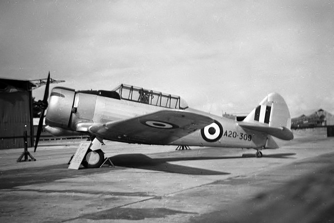 RAAF CAC CA-8 Wirraway A20-309.